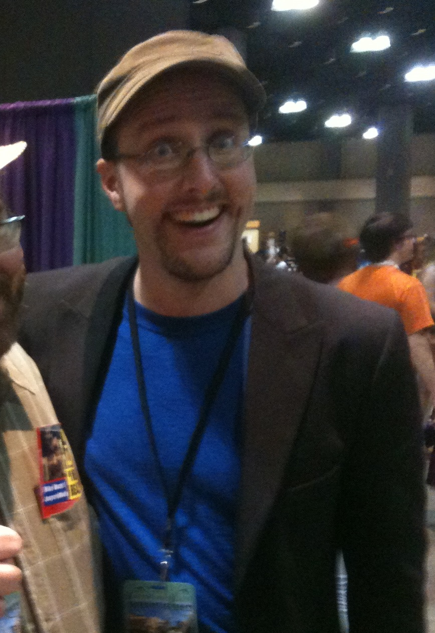 Cropped picture of Doug Walker (Nostalgia Critic) with Mike Mozart of TheToyChannel and JeepersMedia on YouTube at Connecticon The Connecticut Comicon